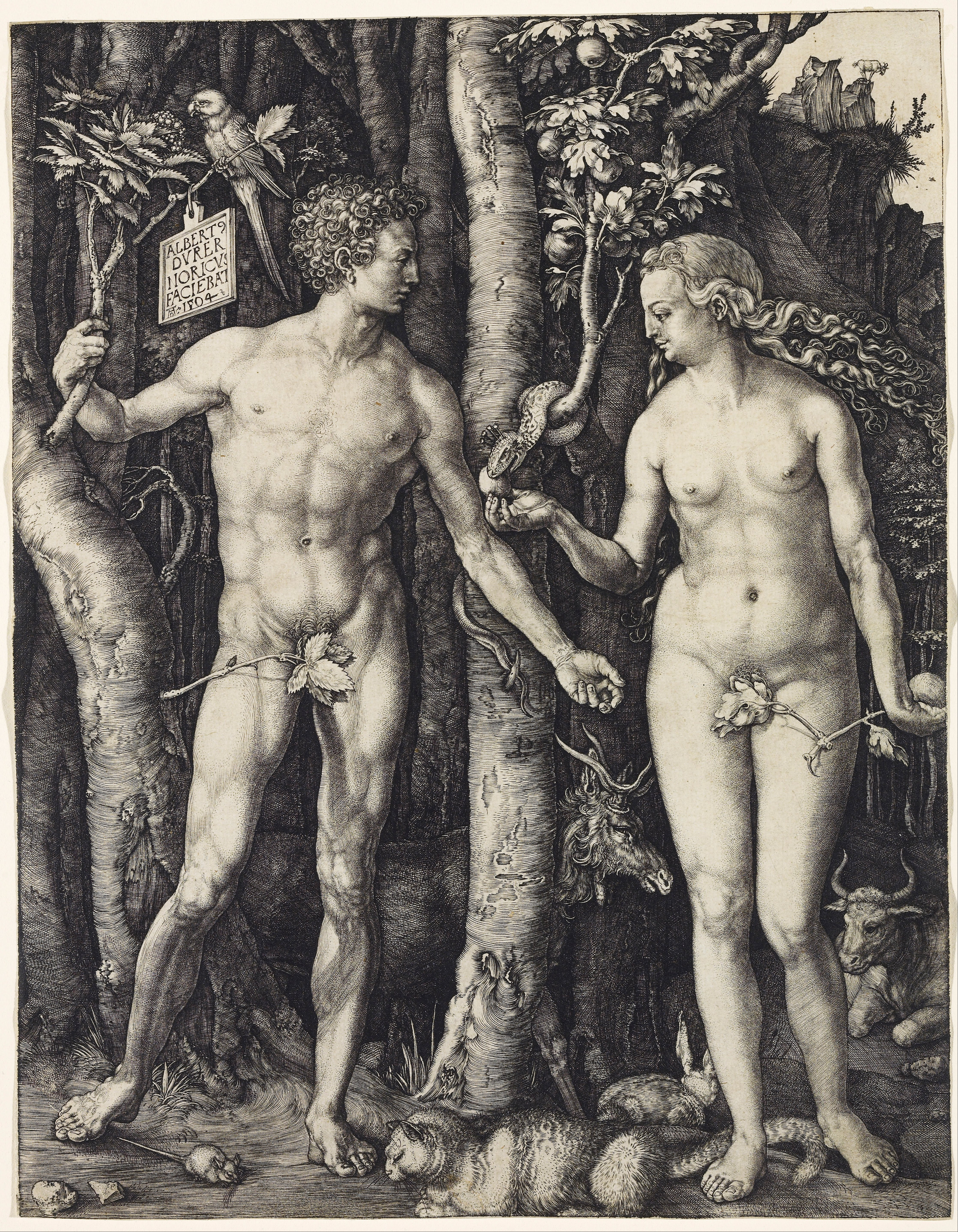 Adam and Eve standing on either side of the tree of knowledge with the serpent. In the foreground a cat, an elk, an ox.